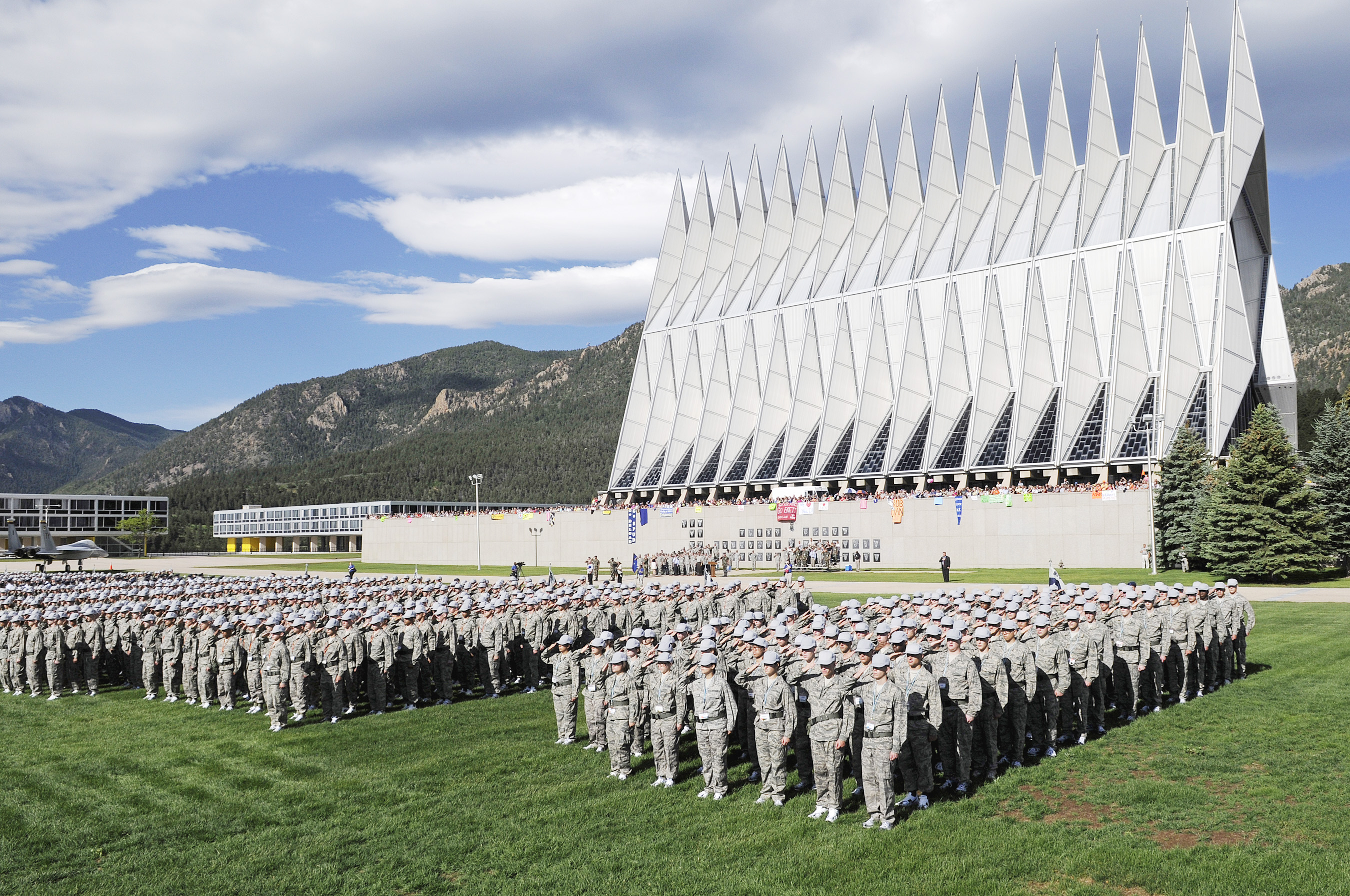 More than 1,300 basic cadets salute June 26 during their first reveille formation at the U.S. Air Force Academy in Colorado Springs, Colorado.